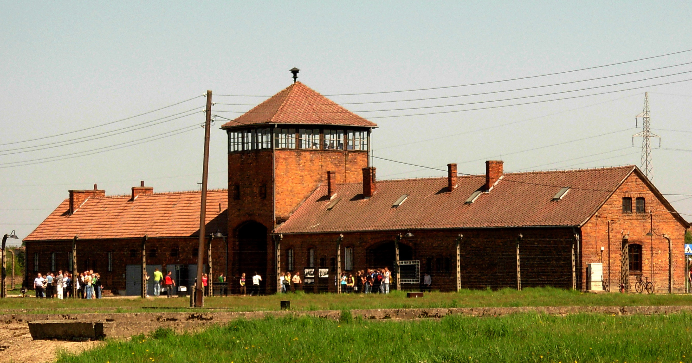 Auschwitz (Birkenau) concentration camp - main administrative building